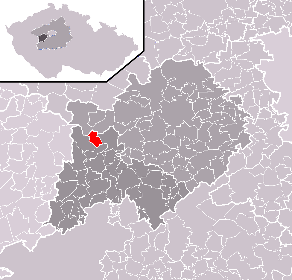 Location of Březová municipality within Beroun District and administrative area of Hořovice as a Municipality with Extended Competence.